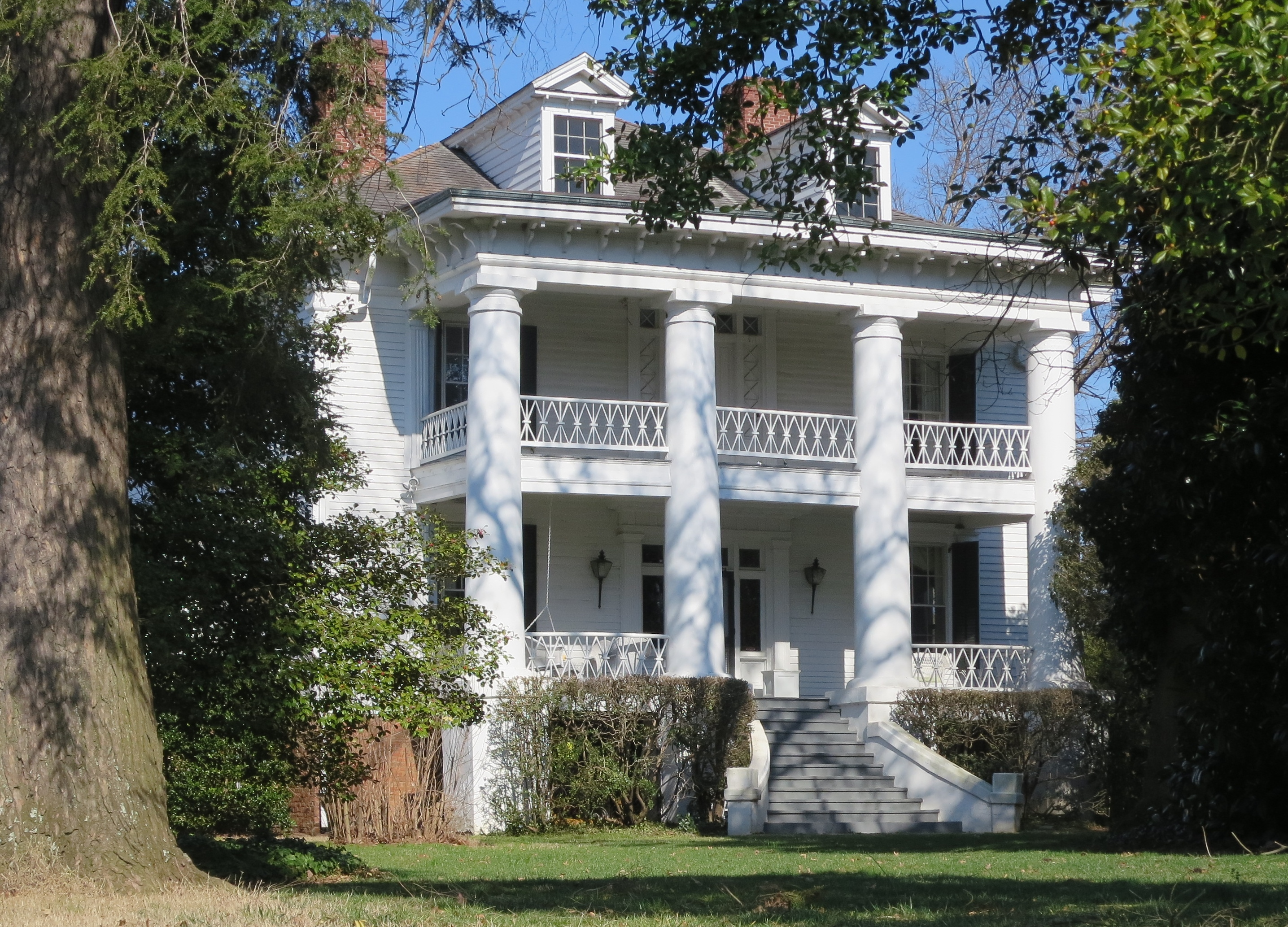 Historic Evins-Bivings House on Church Street near Wofford College.